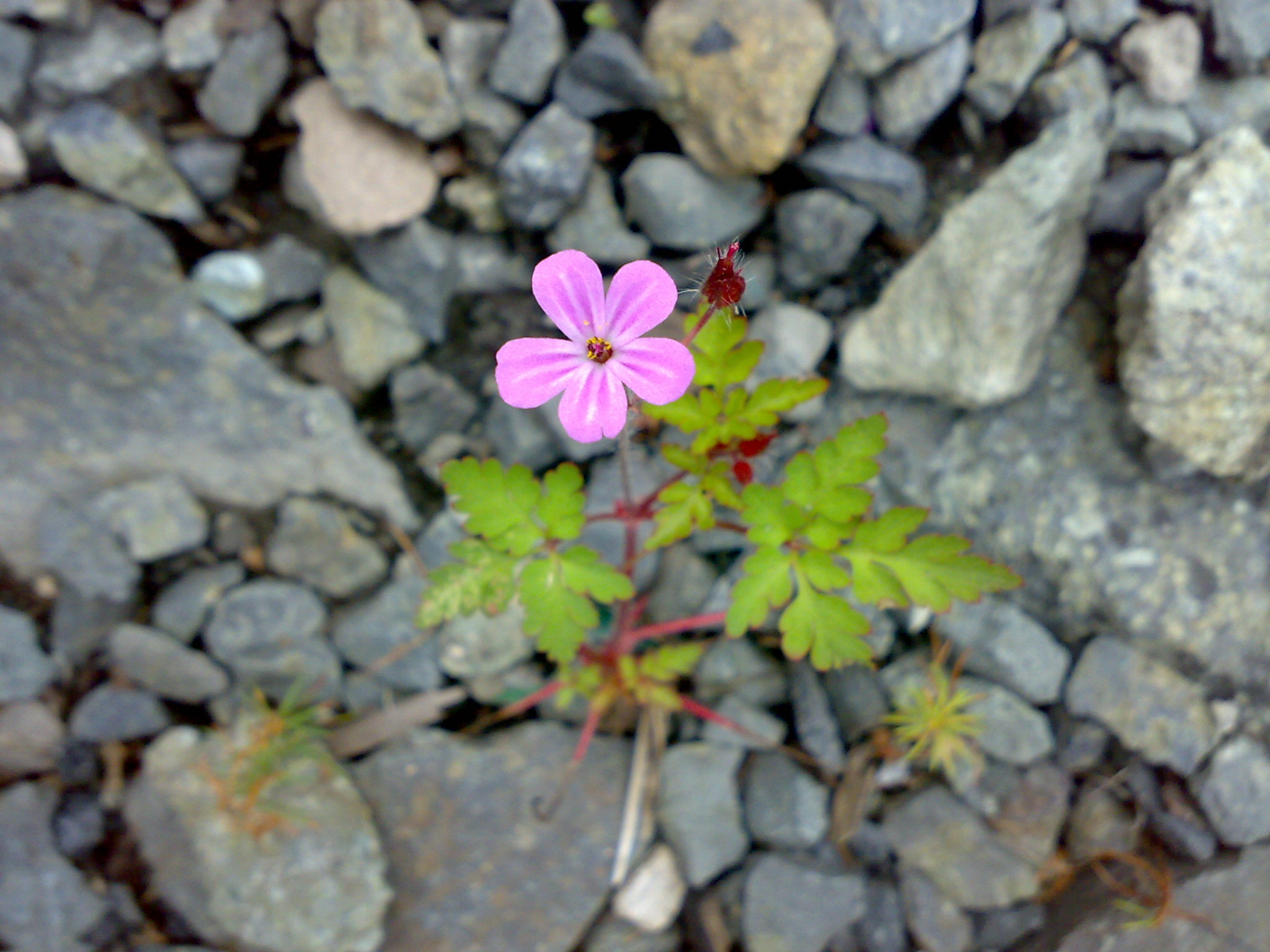 Geranium robertianum Lommedalen, Norway